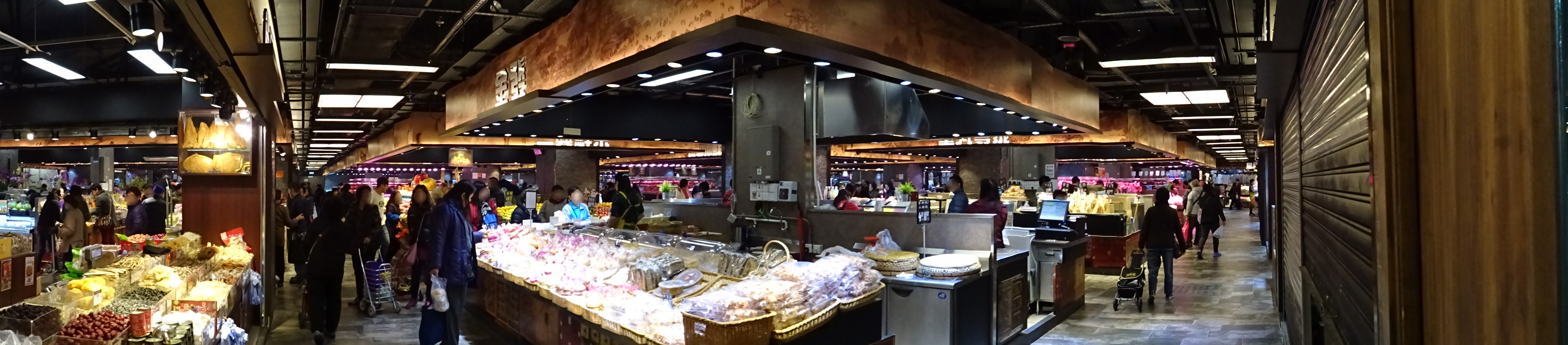 Leung King Bazaar in Tuen Mun, Hong Kong.